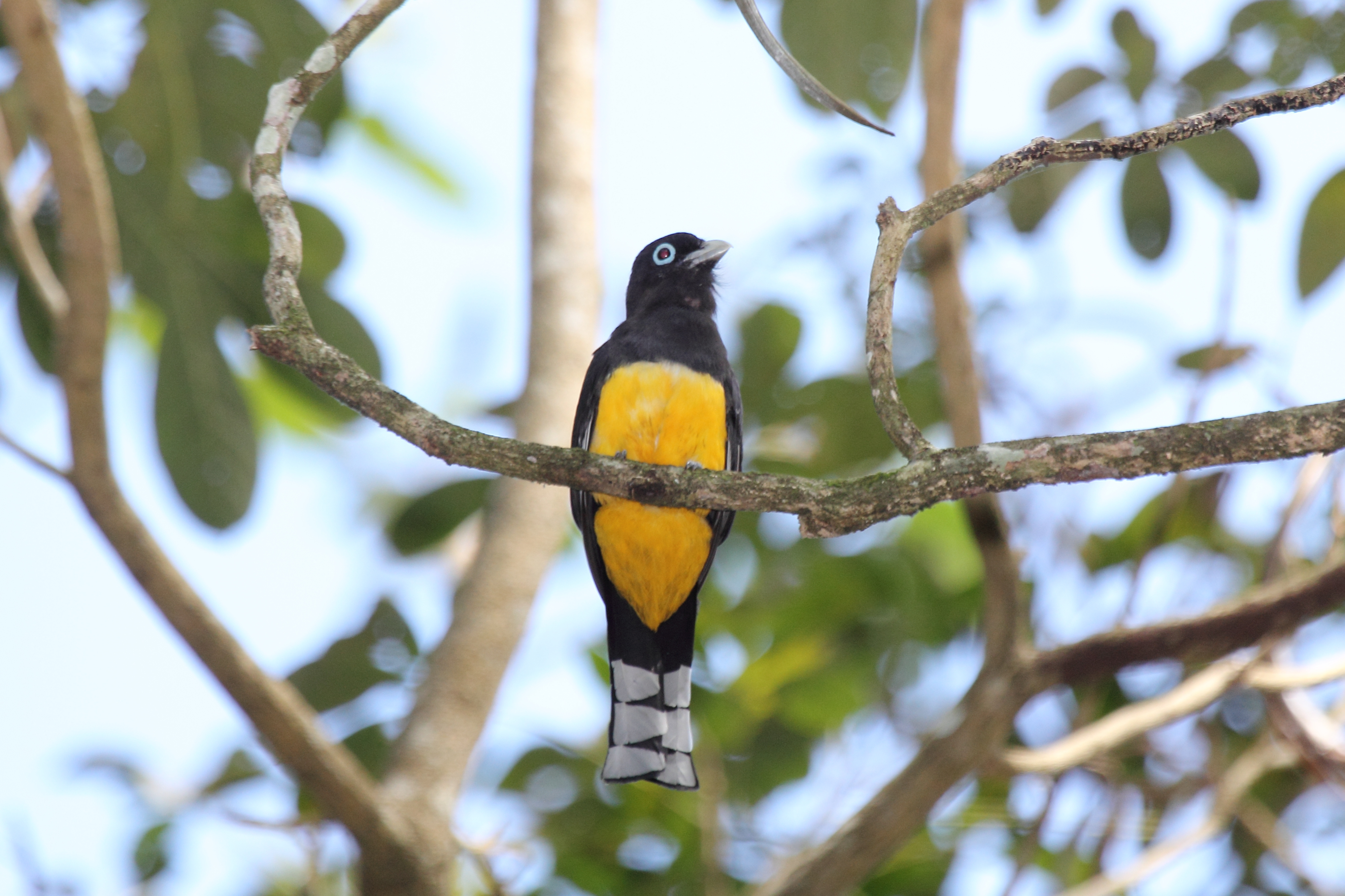 Black-headed Trogon (Trogon melanocephalus)